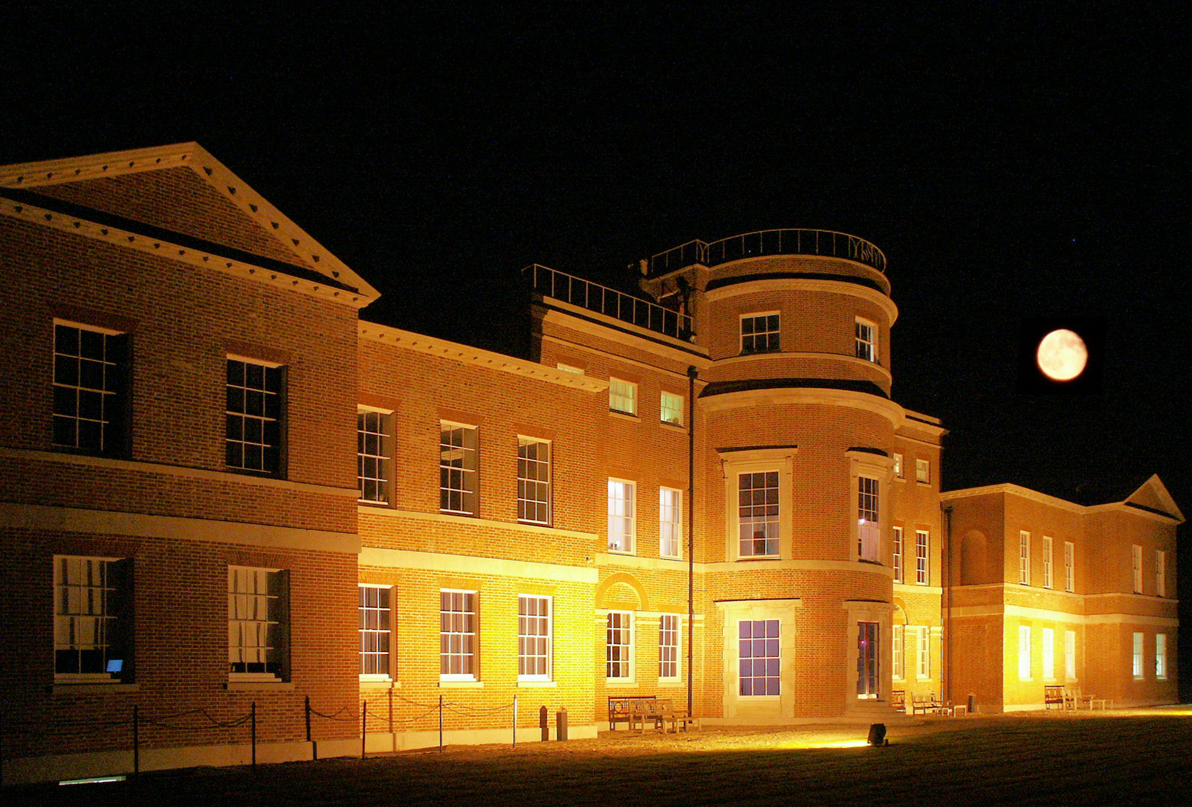 Cams Hall manor house by night